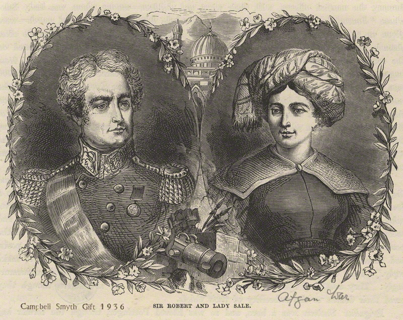 Portrait of sir Robert Henry Sale and Florentia, lady Sale